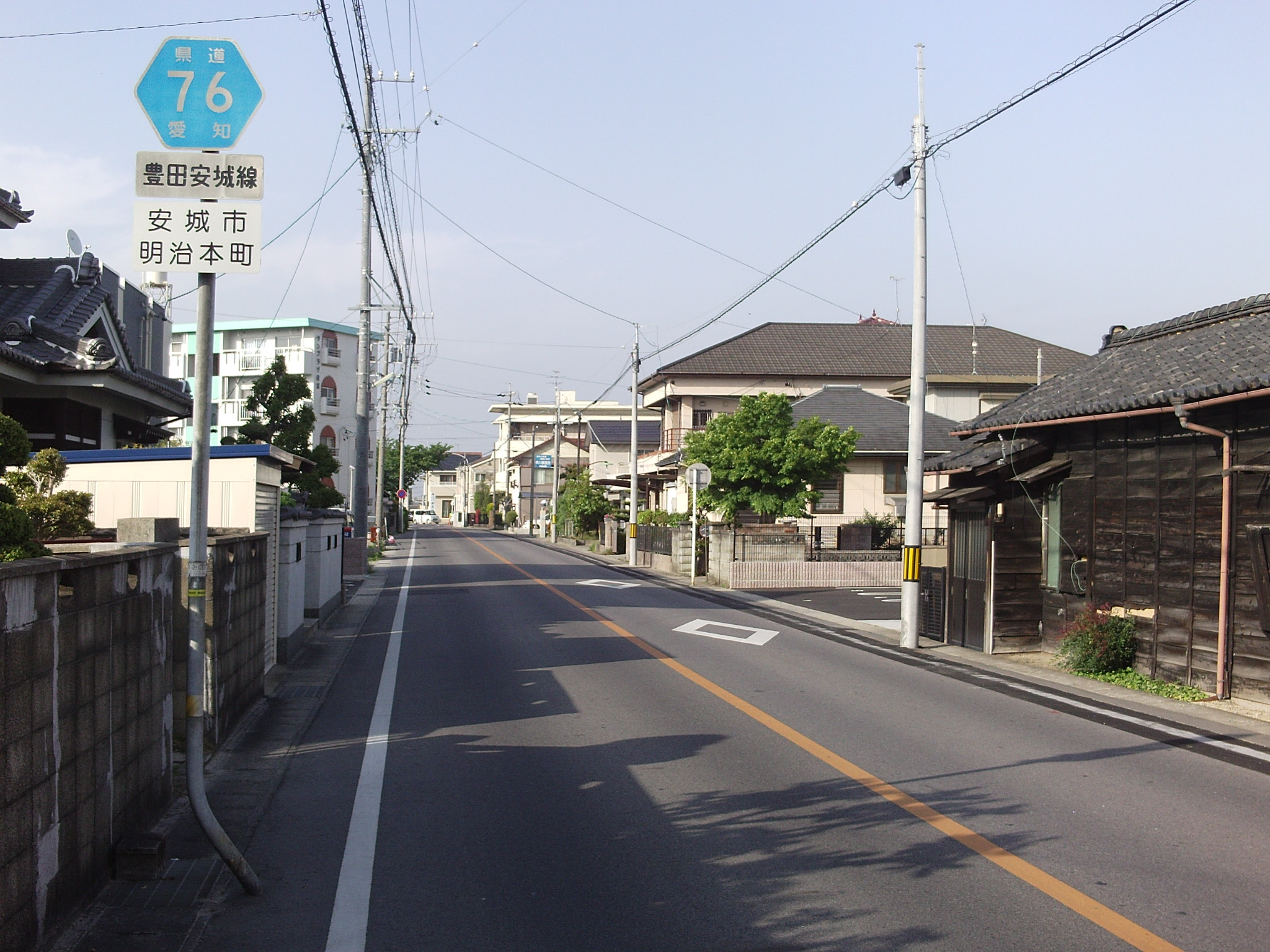 The Aichi Prefectural Road Route 76 in Meijihonmachi, Anjo City